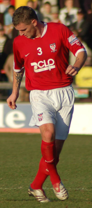 Nathan Peat. Image cropped from original at flickr.